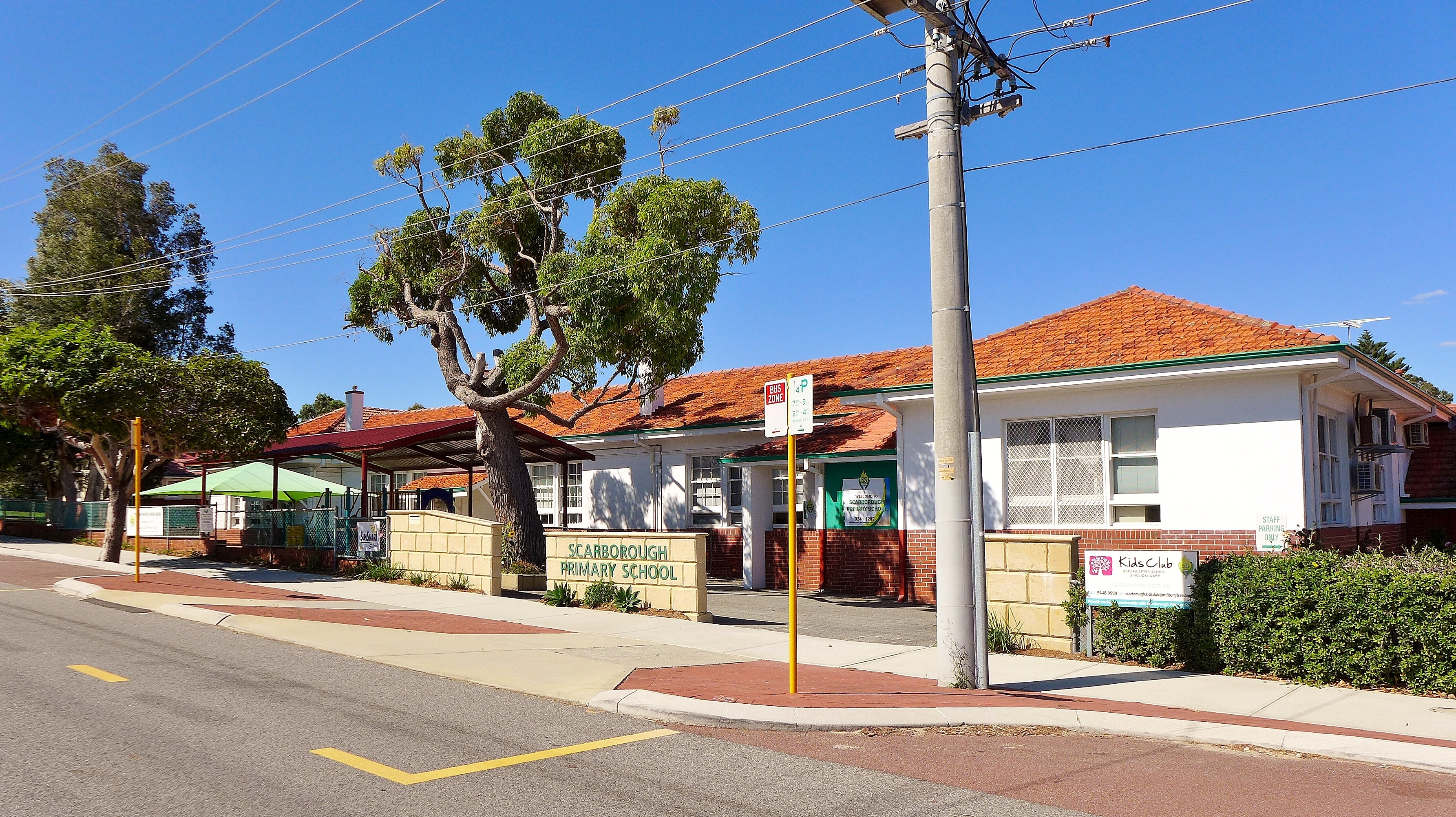 View of Scarborough Primary School, Hinderwell Street, Scarborough, Western Australia.